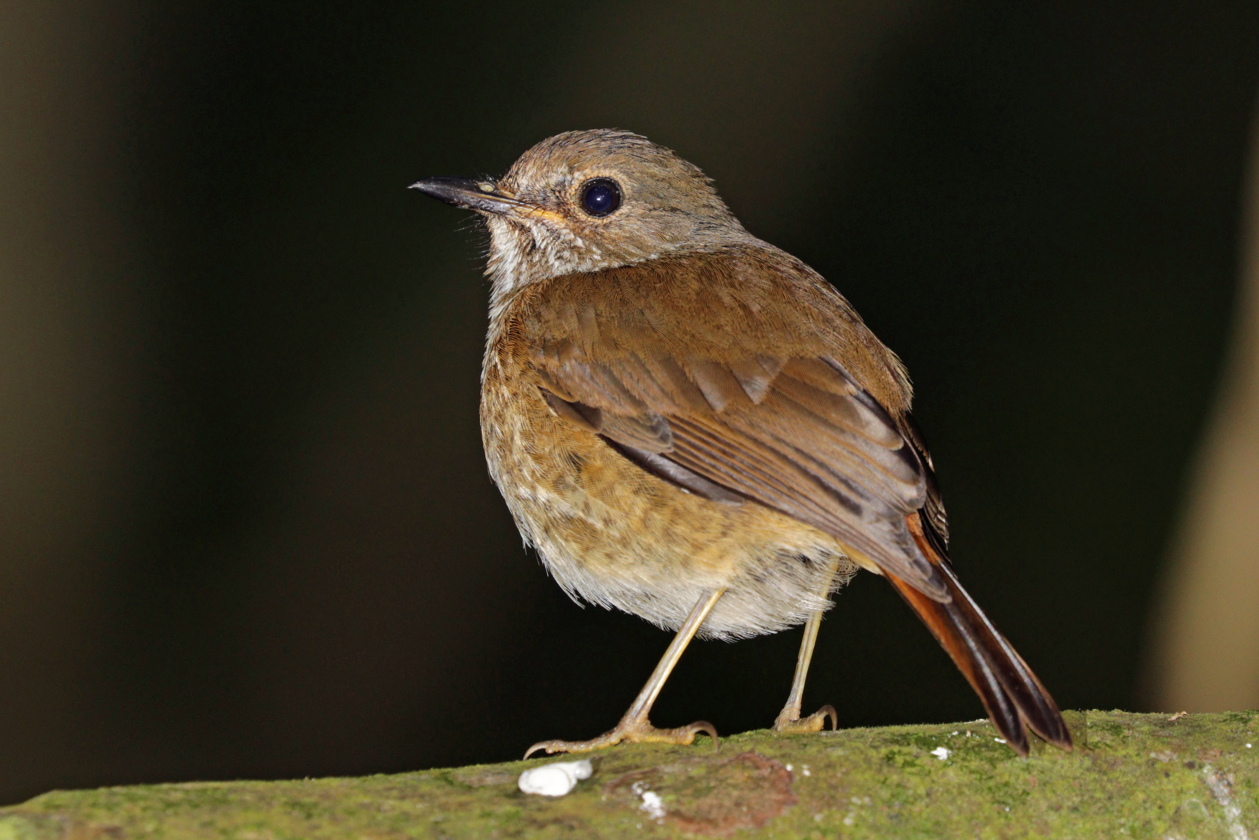 Amber mountain rock thrush (Monticola sharpei erythronotus) female, Montagne d’Ambre National Park, Madagascar